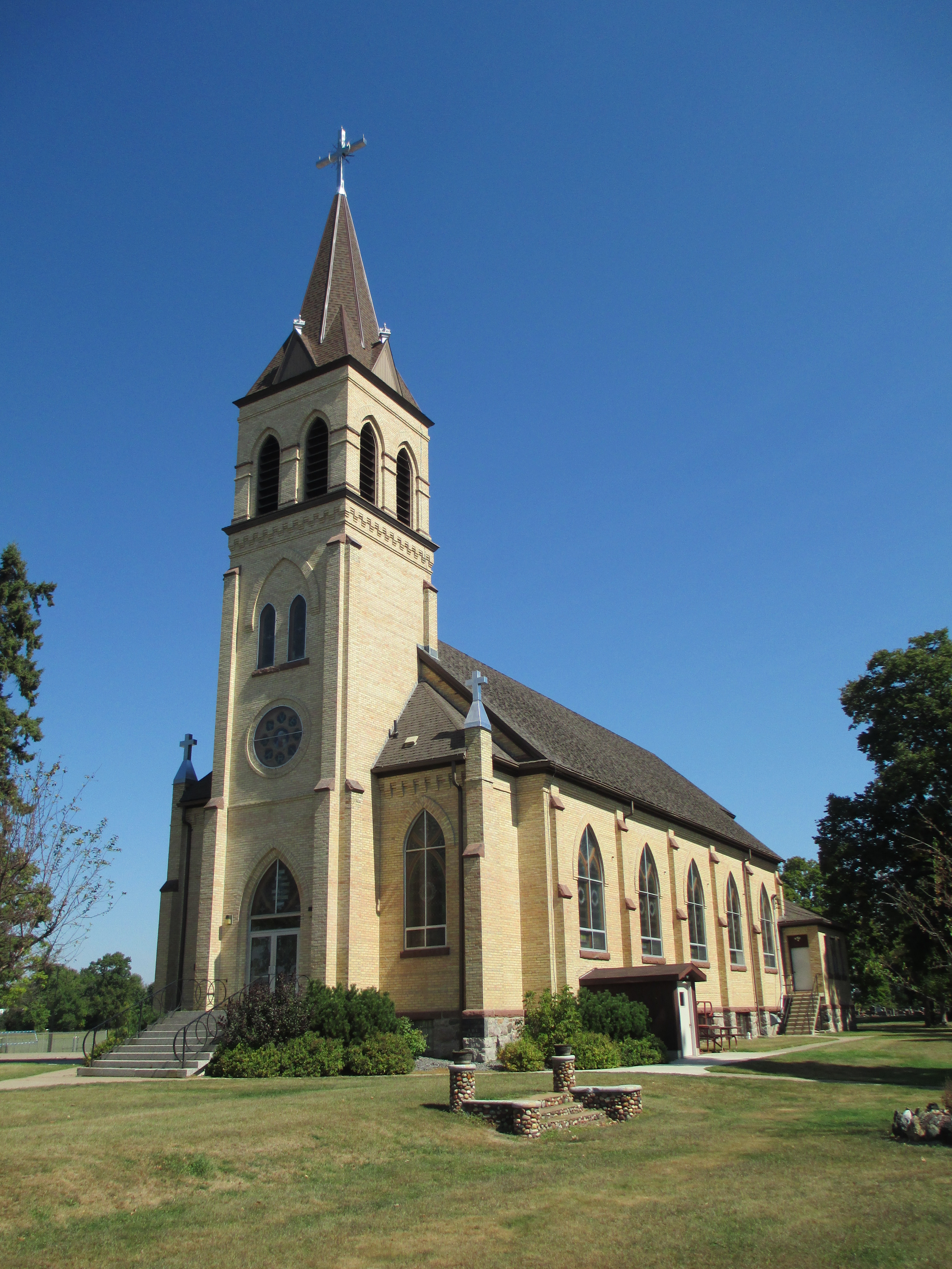 Church of the Immaculate Conception located off of Co. HWY 9 in Avon, Minnesota